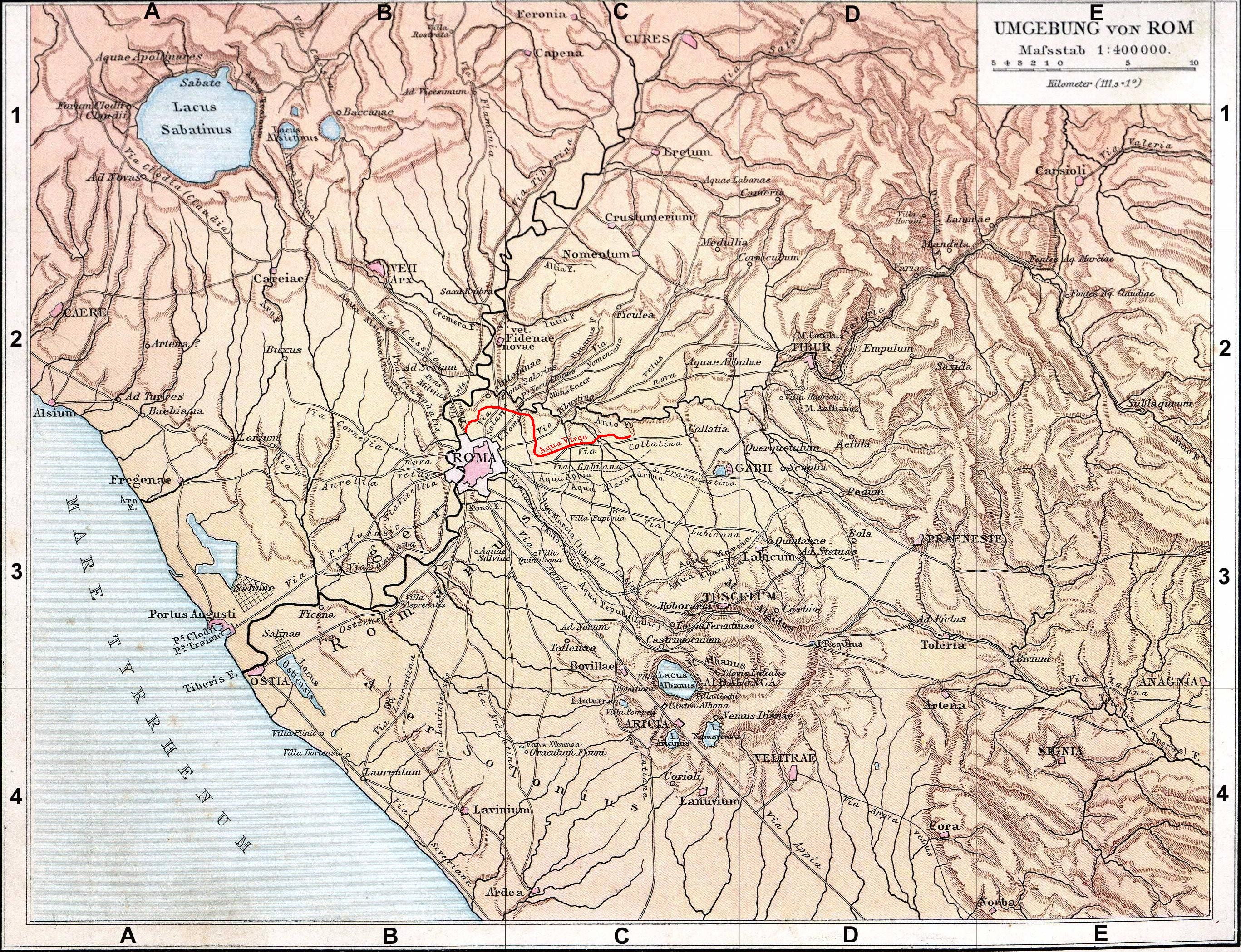 Map from 1886, public domain (Image:Rom_Umgebung.jpg), with Aqua Appia in red.